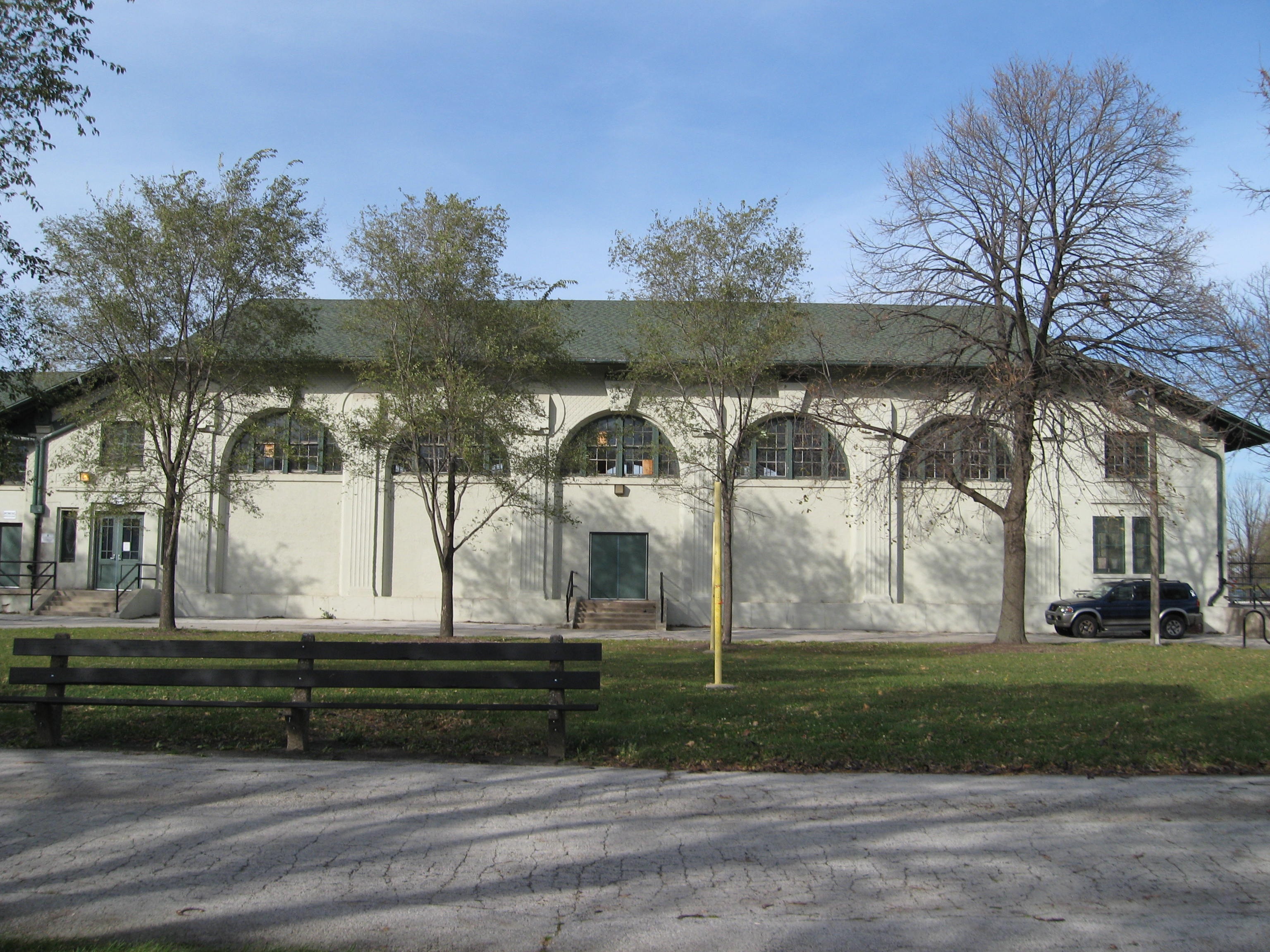 201 E 111th St Chicago, IL 60628 (312) 747-6576